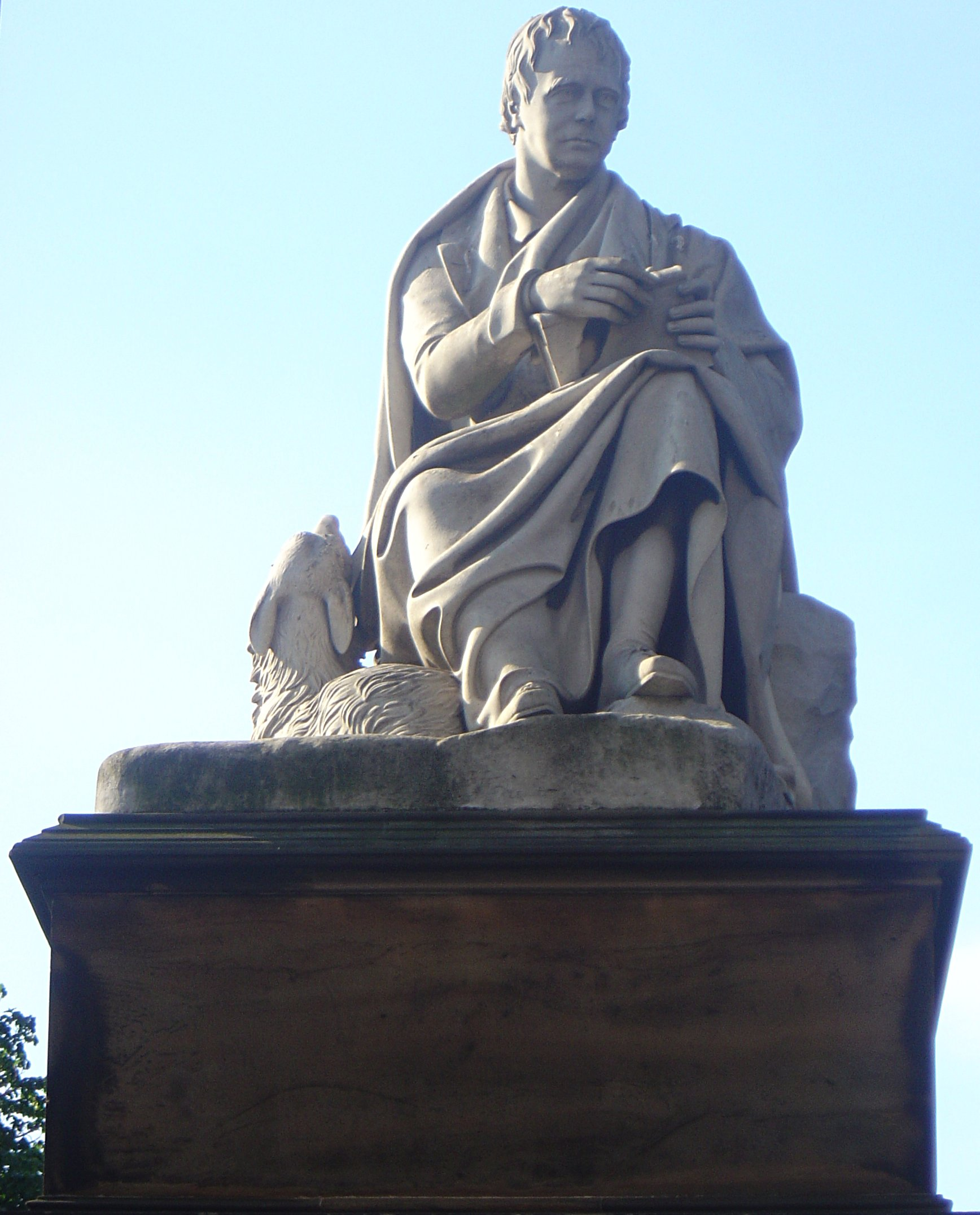 Edinburgh, Statue of Walter Scott